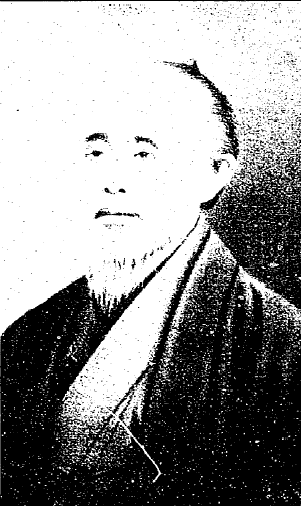 Yonabaru Ryōketsu